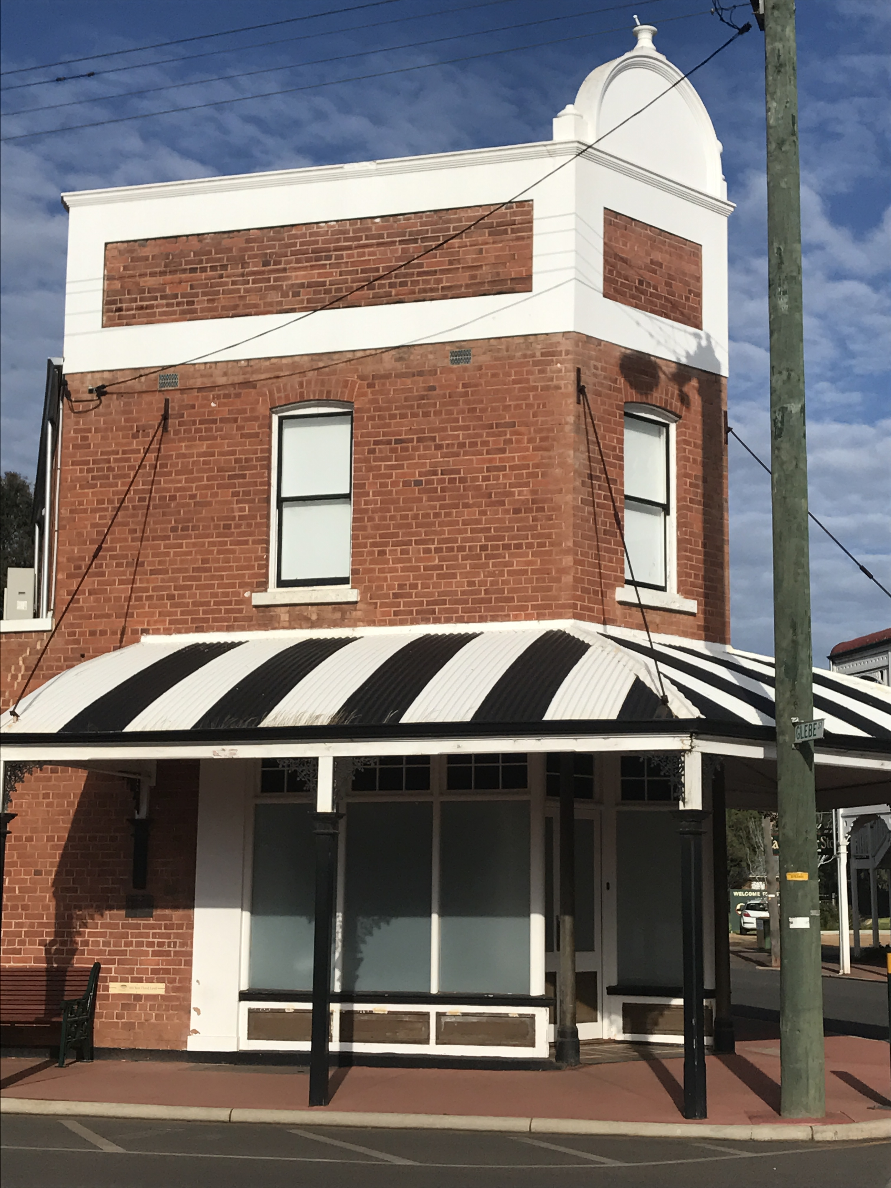 A pharmacy building in York Western Australia, constructed in 1904